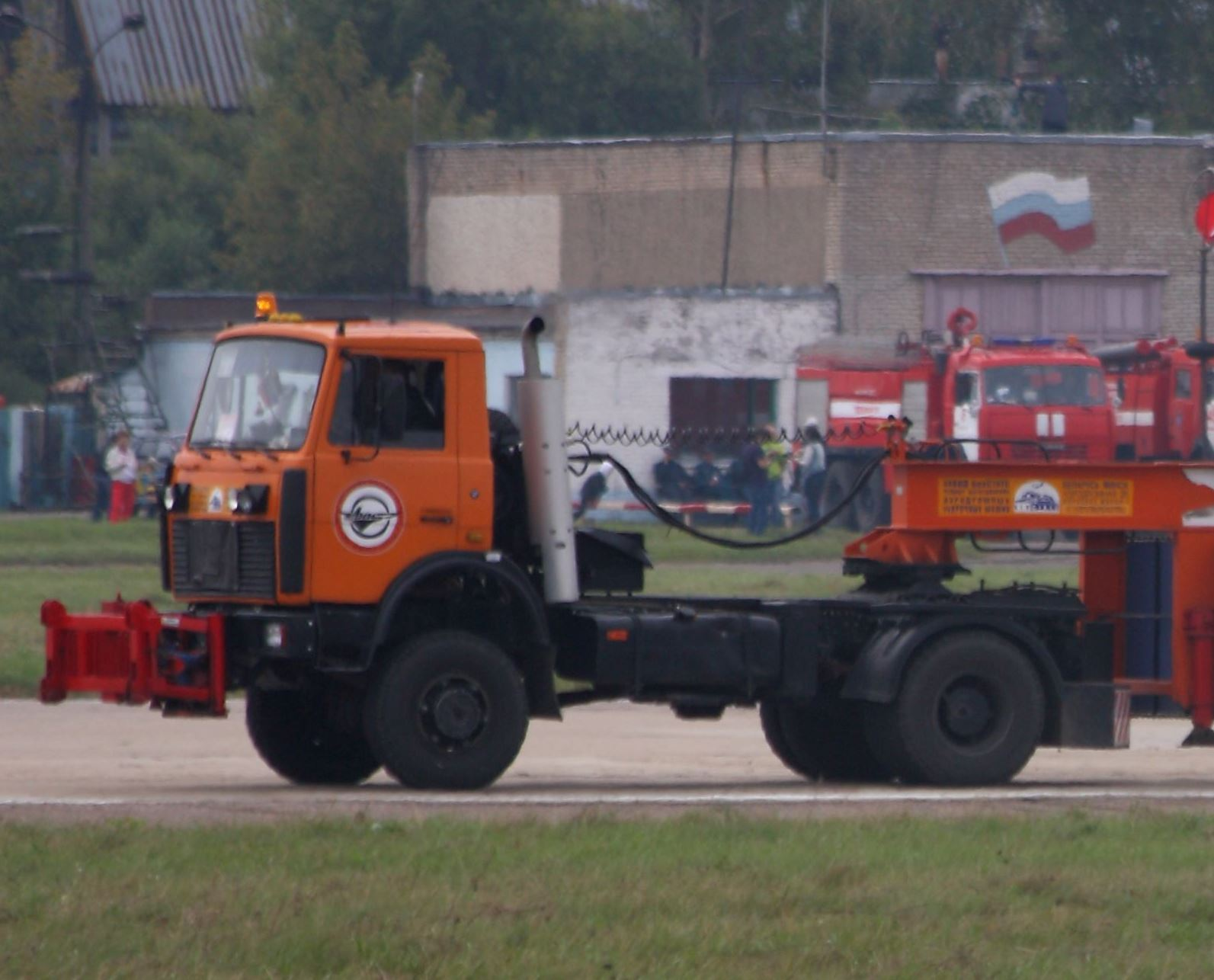 MAZ-5434 tractor. Do not mix up with MAZ-5433 without all-wheel-drive.